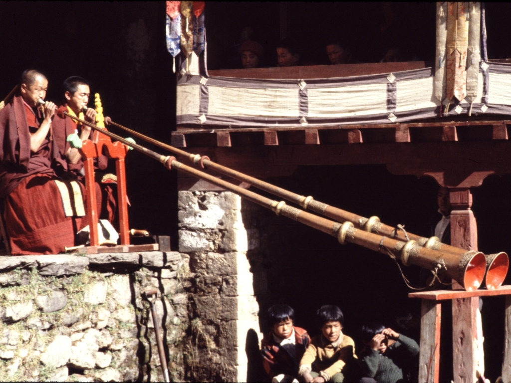 Two buddhist playing trumpets